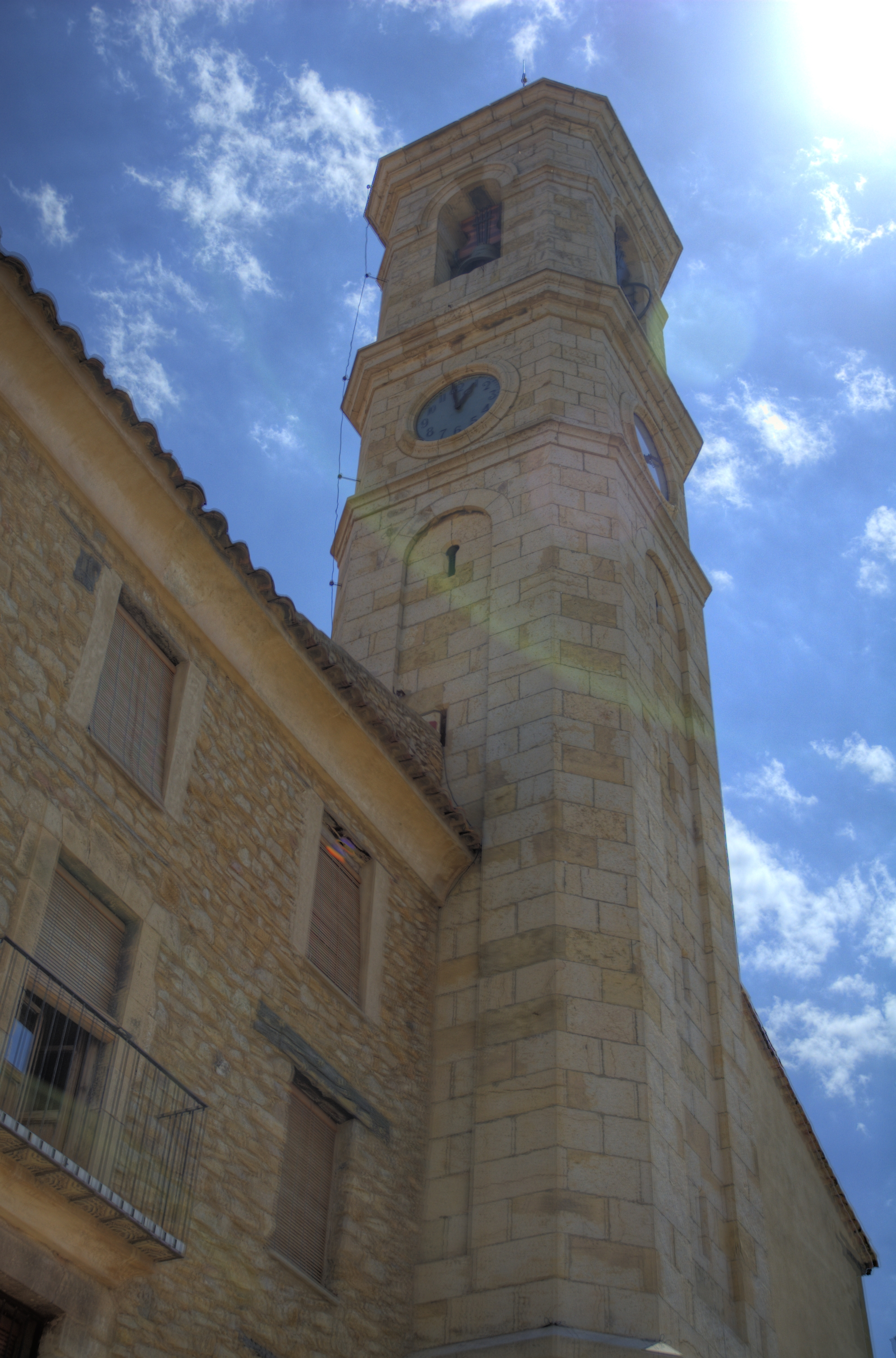 Church tower in Vilafranca (Ports), Spain